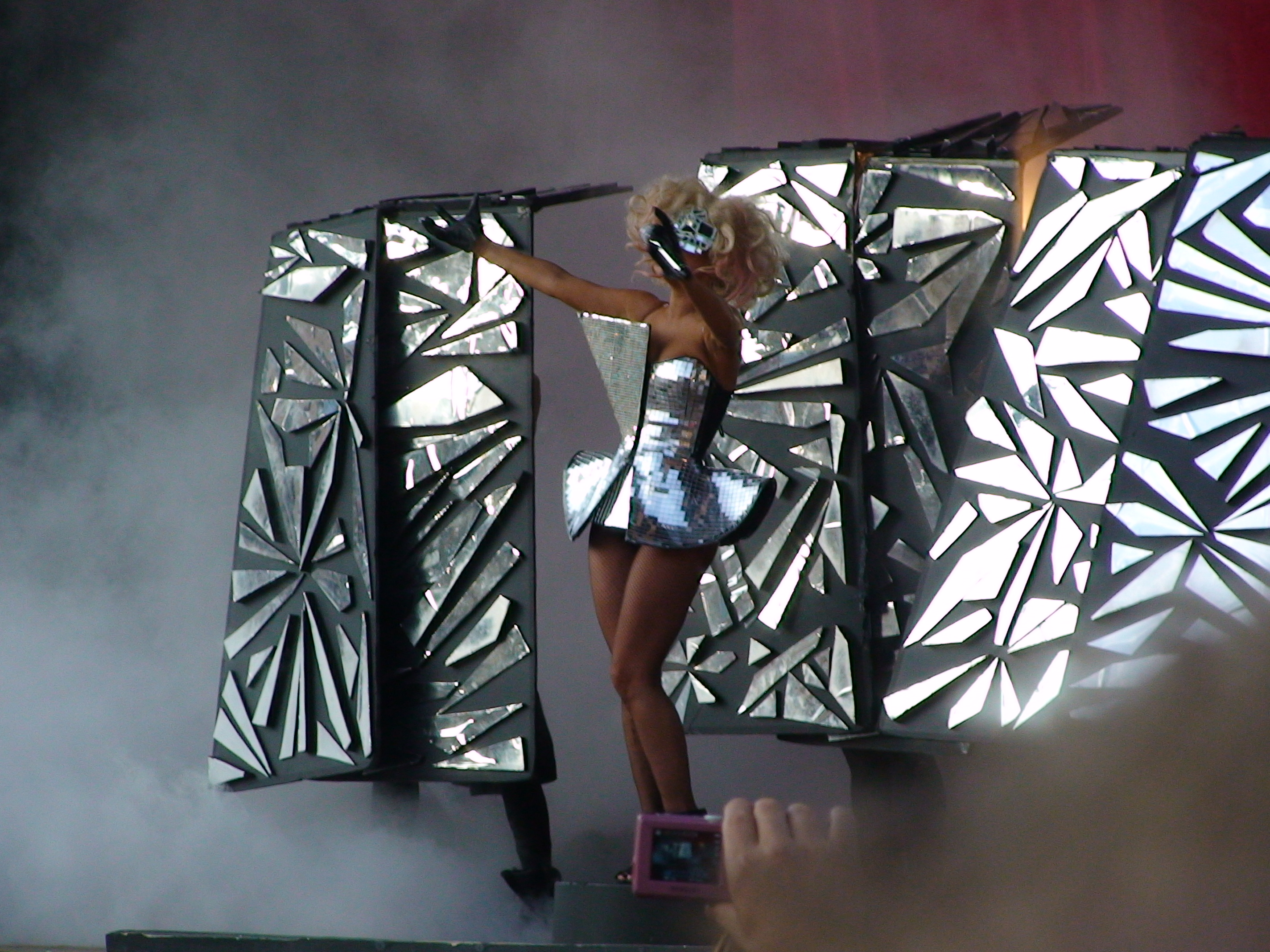 Lady Gaga at Gröna Lund, Stockholm 2009